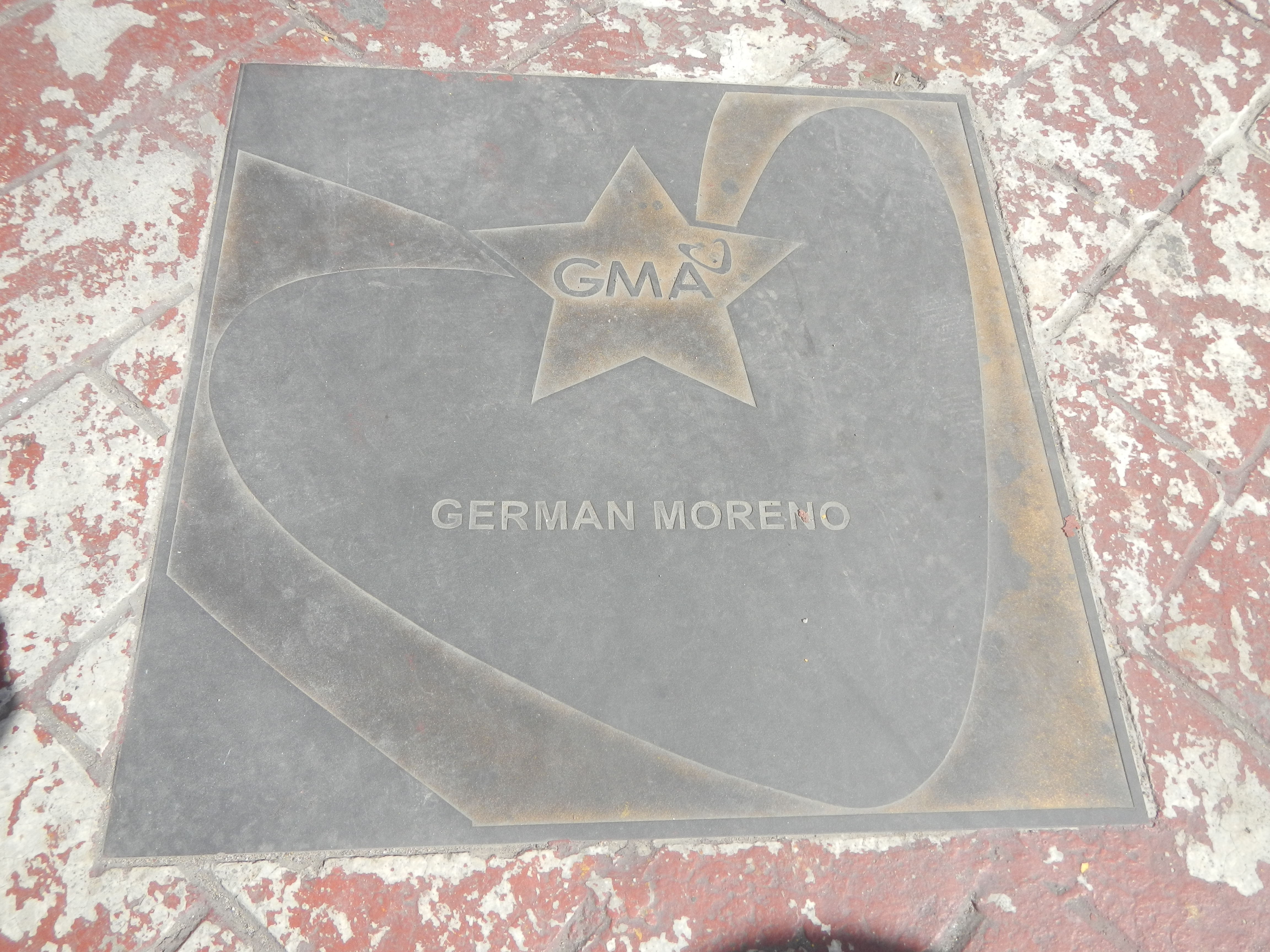 GMA Network Center Walk of Fame On March 24, 2014, over 190 celebrities and news & public affairs personalities done by the late German "Kuya Germs" Moreno Eduardo Castrillo's "Beyond Broadcasting" unveiled on June 14, 2000, to commemorate GMA Network's 50th anniversary Timog Avenue, Kamuning MRT Station corner Epifanio de los Santos Avenue (EDSA, GMA Kamuning section) of EDSA (road) Epifanio de los Santos Avenue Highway 54) in the List of barangays of Metro Manila Legislative districts of Quezon City Districts IV, Barangays of Quezon City, Barangay Sacred Heart, beside Barangay South Triangle, District IV, Quezon City (Note: Judge Florentino Floro, the owner, to repeat, Donor Florentino Floro of all these photos hereby donate gratuitously, freely and unconditionally all these photos to and for Wikimedia Commons, exclusively, for public use of the public domain, and again without any condition whatsoever).